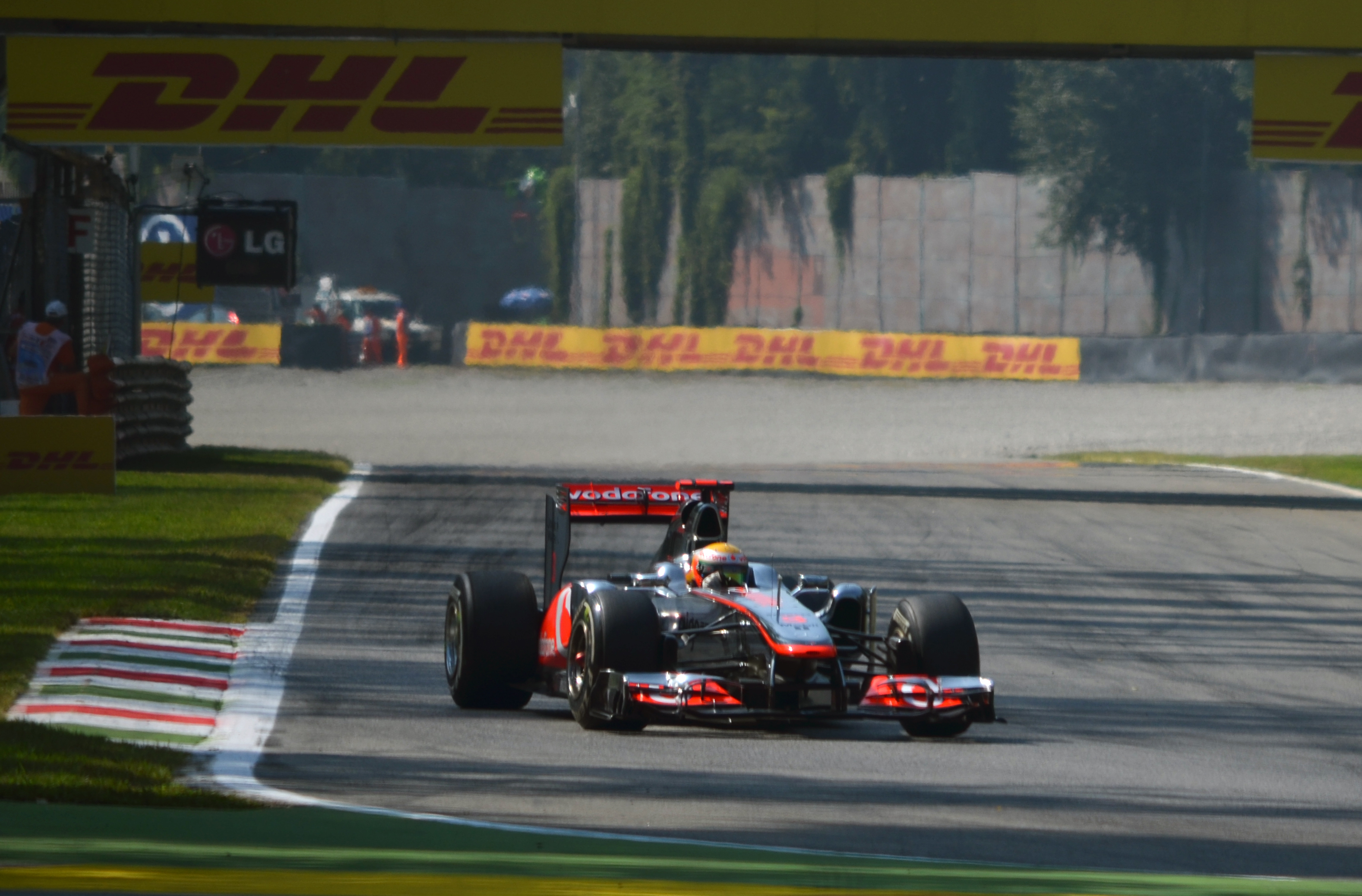 Lewis Hamilton in the McLaren - Mercedes MP4-26 turns into the Roggia chicane at Monza during second practice for the 2011 Italian Grand Prix.